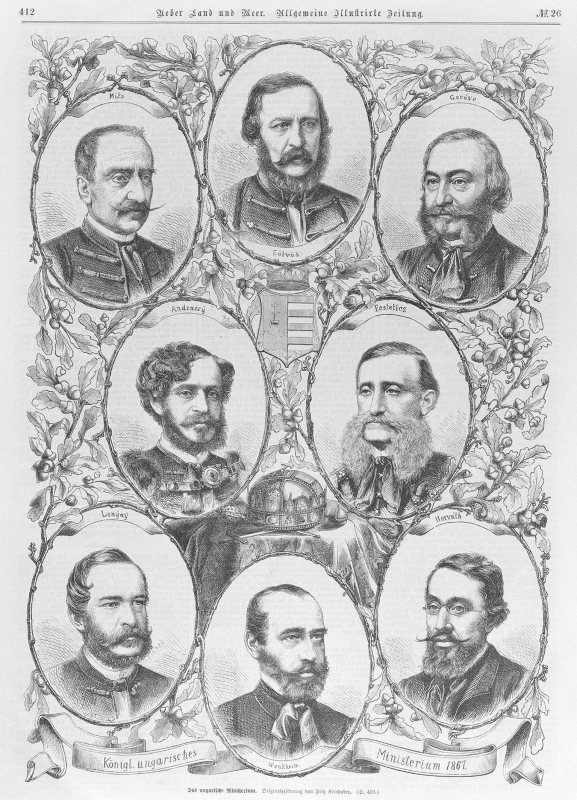 "Königlich ungarisches Ministerium 1867" Unter Ministerpräsident Graf Andràssy: Tableau mit acht Brustbildnissen in miteinander verbundenen, mit Eichenlaub umrankten Ovalen: Emmerich Graf Mikó, Josef Freiherr von Eötvös, Stefan von Gorové, Graf Andràssy, Georg Graf Festetics, Melchior Graf Lónyay, Béla Freiherr von Wenckheim und Boldizsár Horváth. Xylografie nach Originalzeichnung von Fritz Kriehuber.